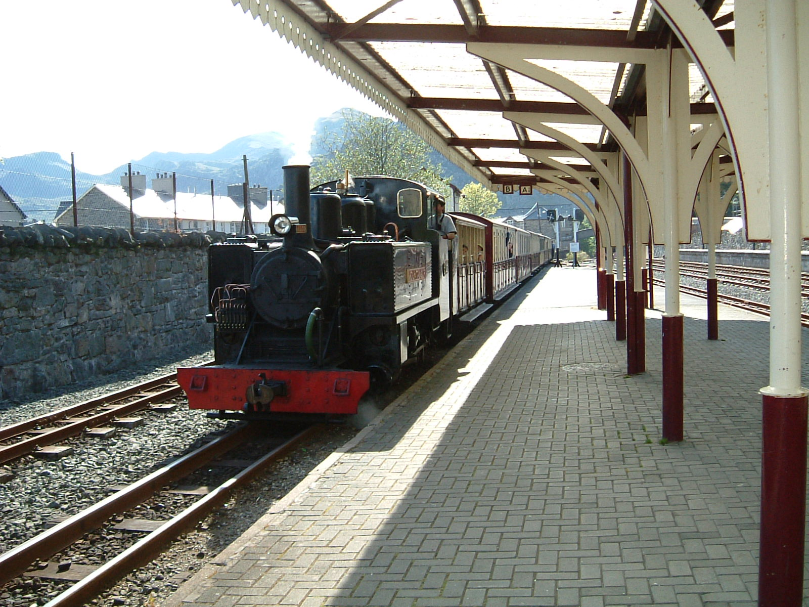 Steam engine 'Mountaineer' at Blaenau Ffestiniog railway station on the Ffestiniog Railway.